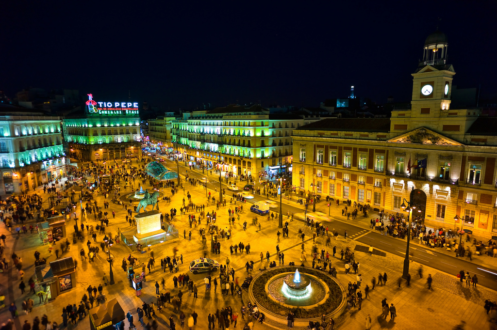 Night view of the Puerta del Sol Square, Spain's Km0 point. This photograph can be used for publications, including this copyright statement: “©PromoMadrid, author Alfredo Urdaci”. Esta fotografía puede usarse en publicaciones, incluyendo la declaración “©PromoMadrid, autor Alfredo Urdaci”.